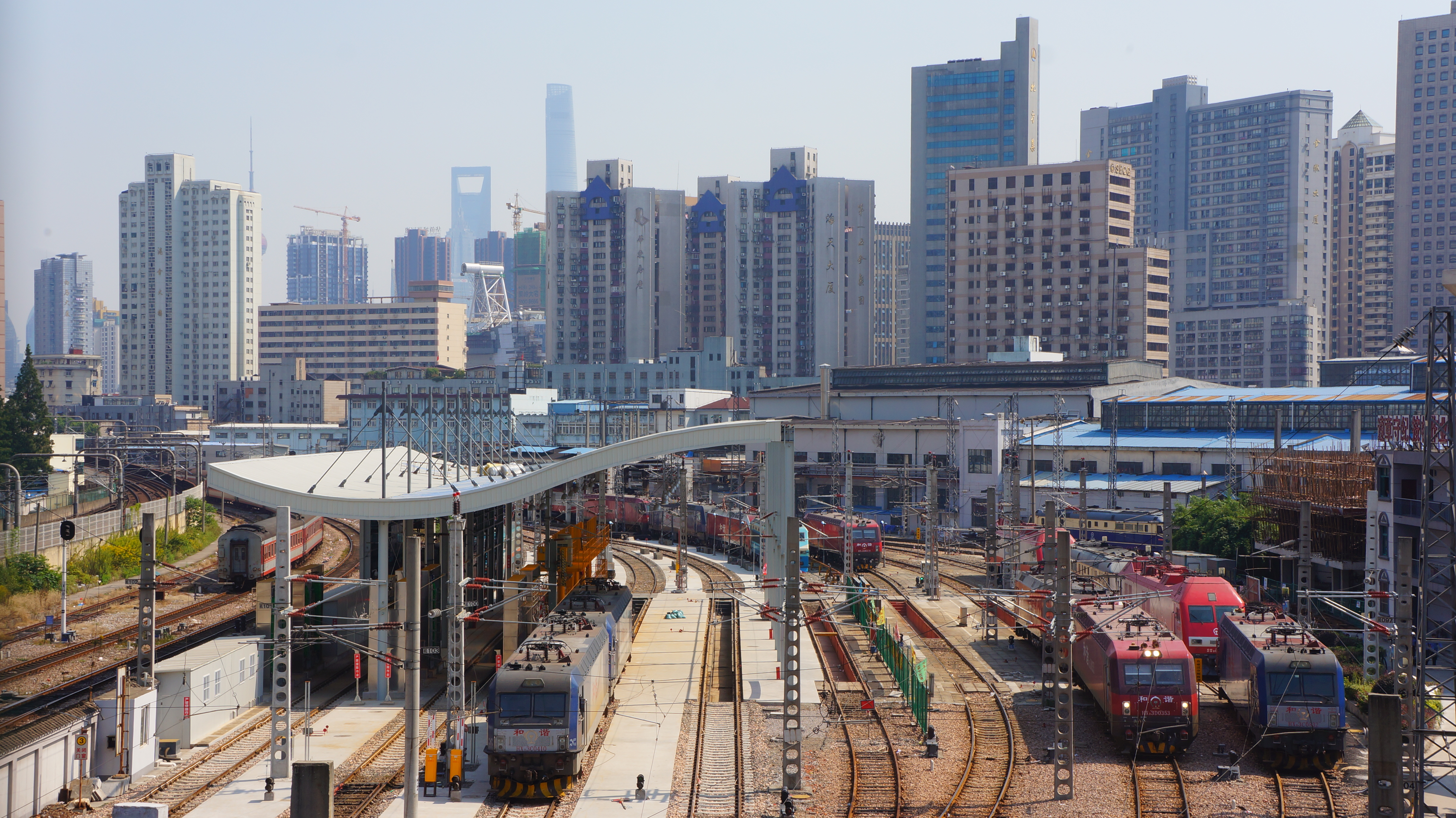 201510 Shanghai Depot